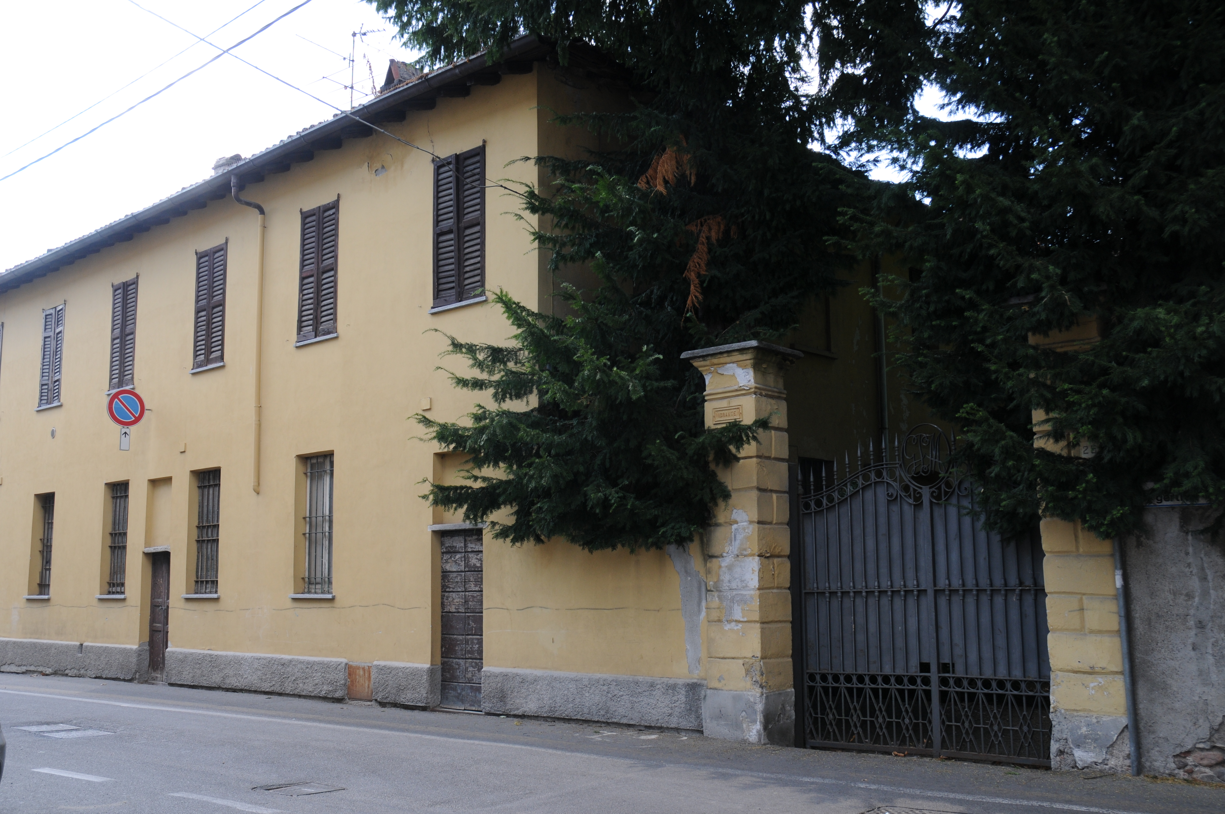 Villa Parravicini in San Giorgio su Legnano (Italy)